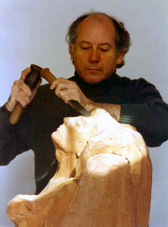 The sculptor Juan María Medina Ayllon working in his Barcelona's studio (Spain)